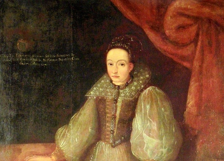 Erszébet Báthory, Bloody Lady of Čachtice